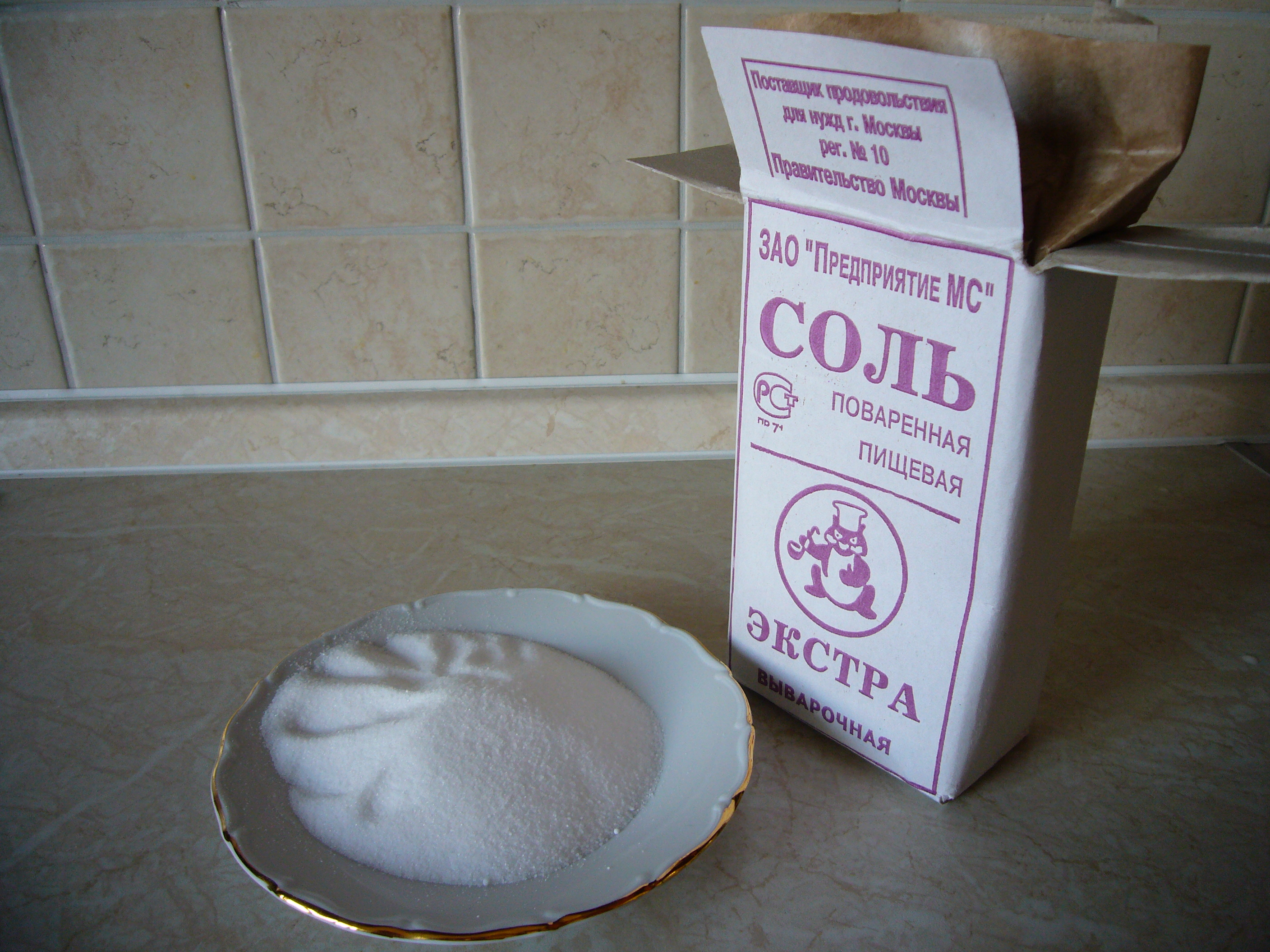 Table salt packed in Moscow, Russia